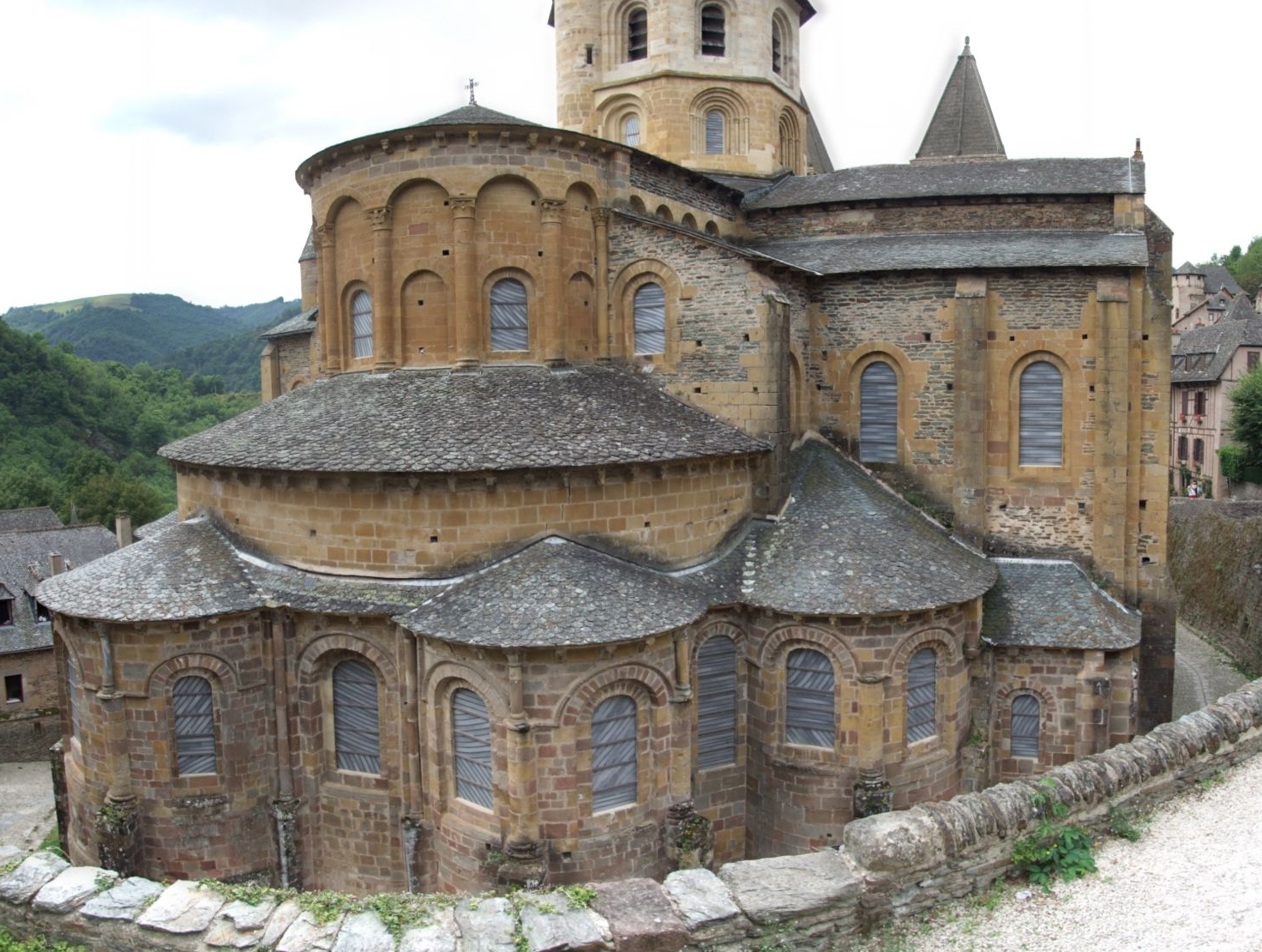 Conques, Aveyron, FRANCE